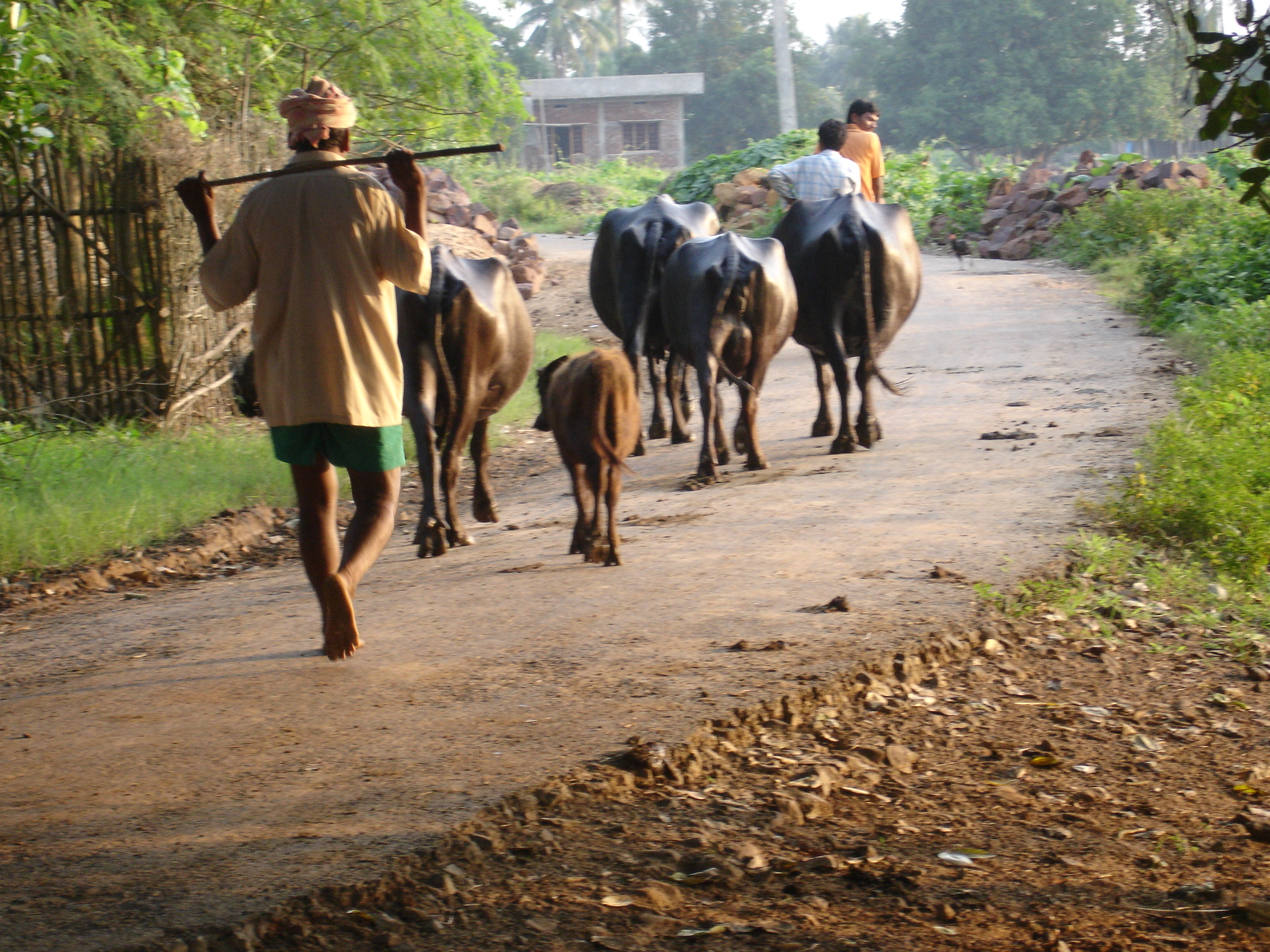 B.Ramesh Raju own work